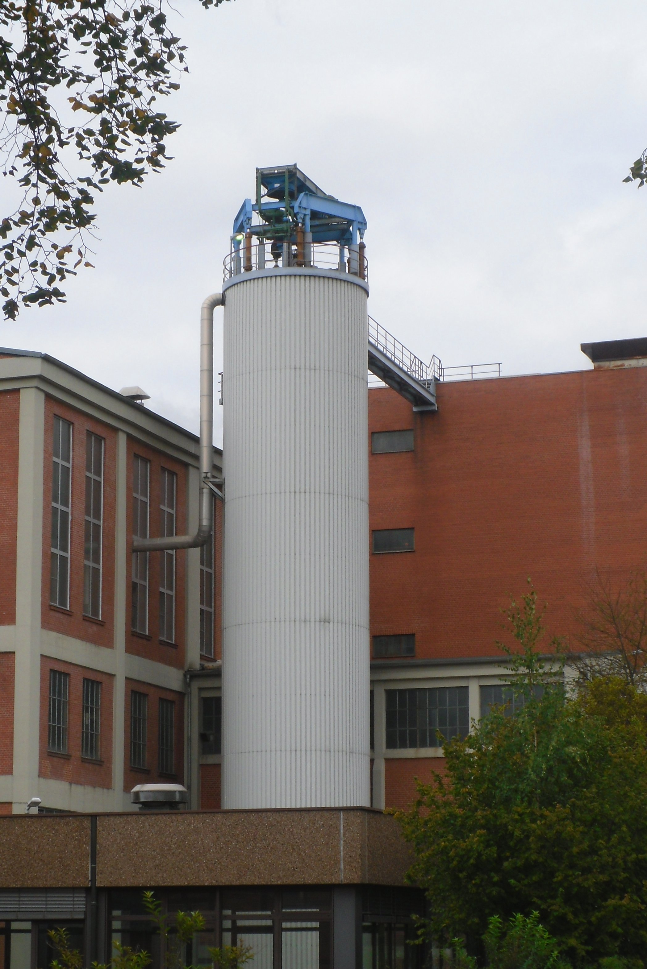 cooling crystallizer manufactured by BMA AG (Braunschweig, germany) in the beet sugar factory of Schladen, Germany. The factory belongs to the Nordzucker group.